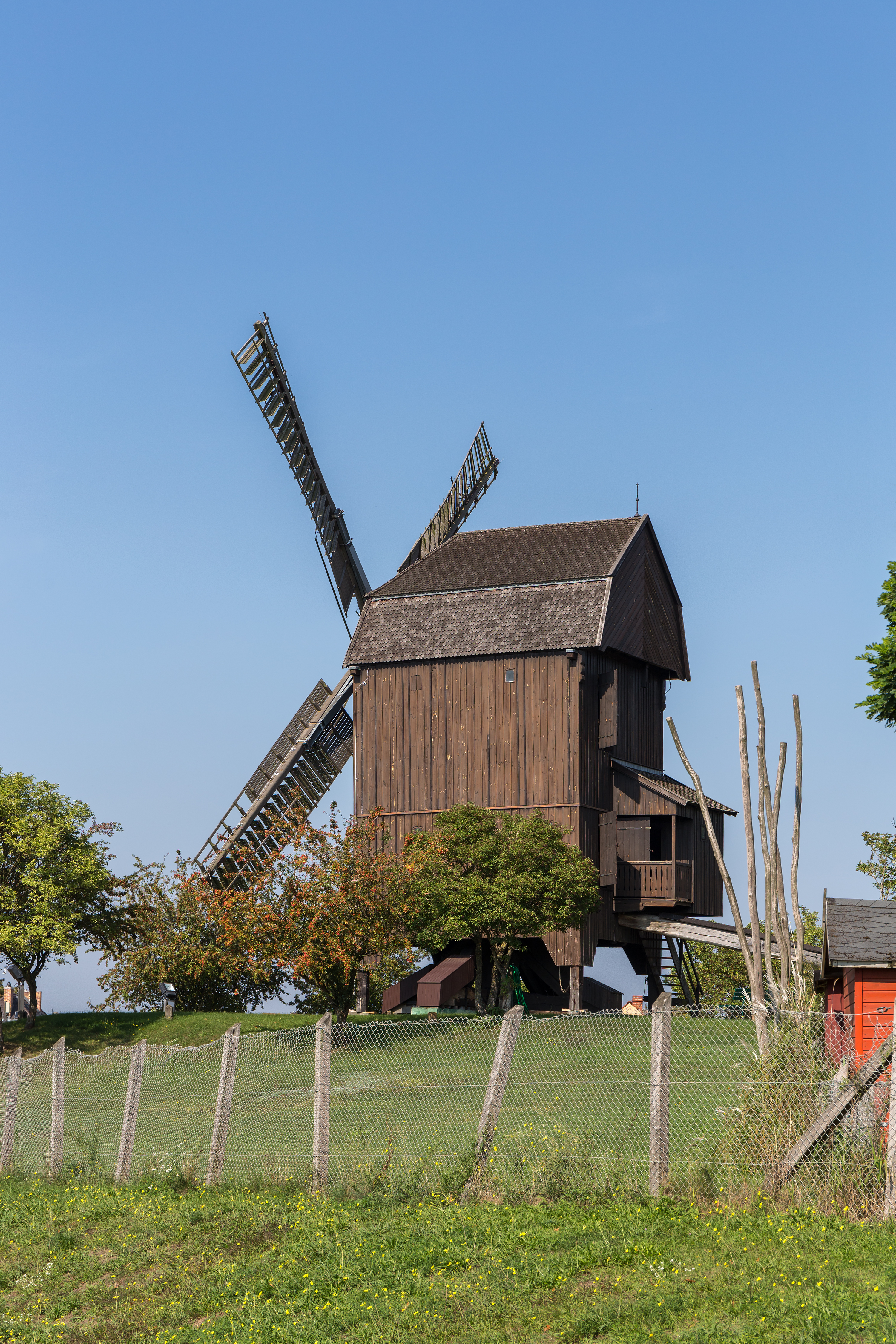 Historic windmill in Werder upon Havel, Brandenburg, Germany.